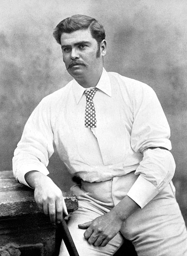 Sport, Cricket, Circa 1895, Arthur Harwood Jarvis, who during his career played for South Australia (1877-1901) and Australia (1884-1895) was both a wicketkeeper and batsman